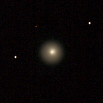 Comet 17P/Holmes. This 1-second exposure made with a Canon 300D on a 300mm LX200 fairly accurately represents the appearance of the comet through the eyepiece. The yellow glow is probably scattered sunlight. A slight asymmetry can be seen between the nucleus and outer coma, which may represent the beginning of tail formation. This image is 5.1 arcminutes square.